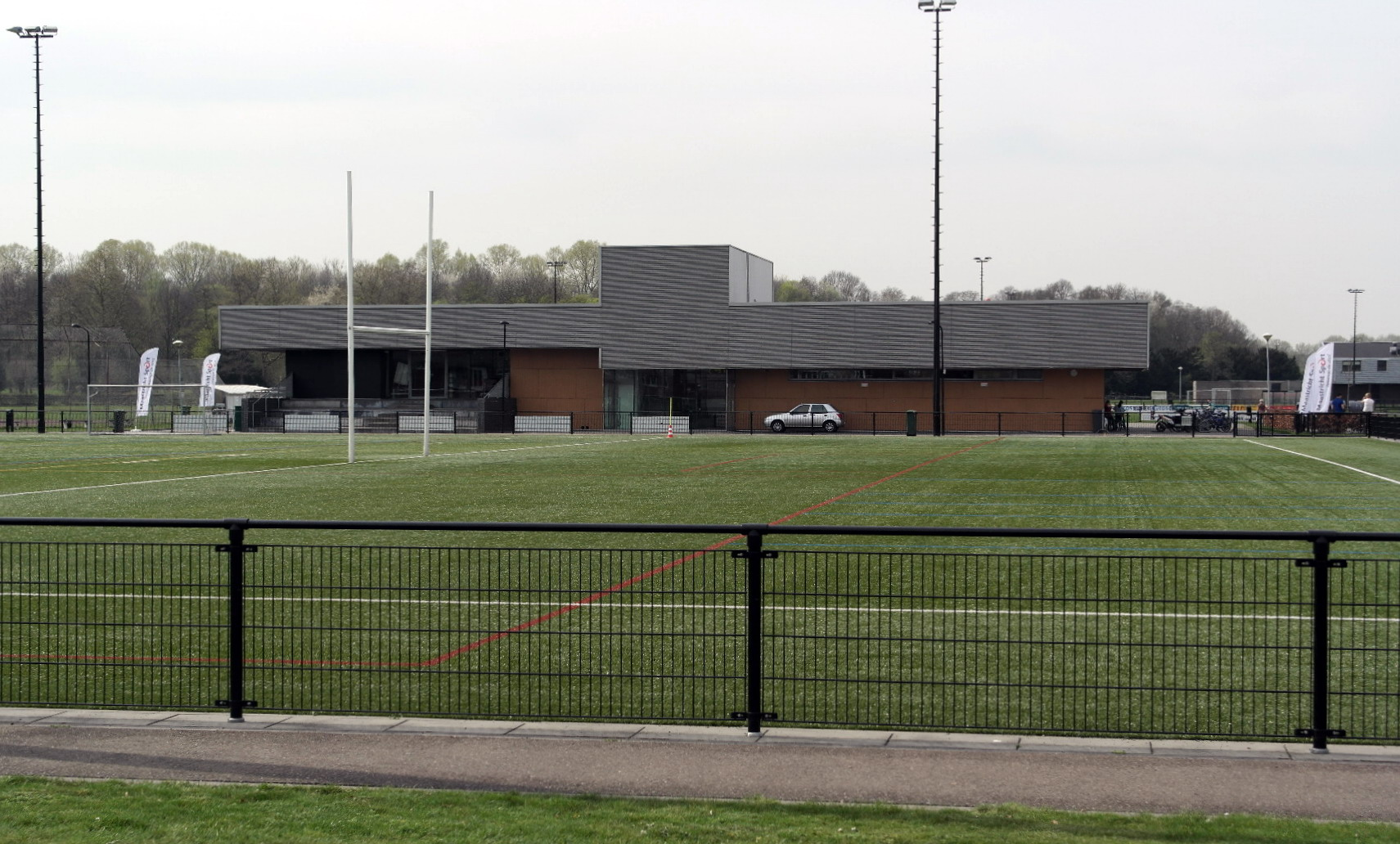 Maastricht, the Netherlands. View of sports accomodation in the northwestern section of Van de Vennepark in the Maastricht-West neighbourhood of Malberg.